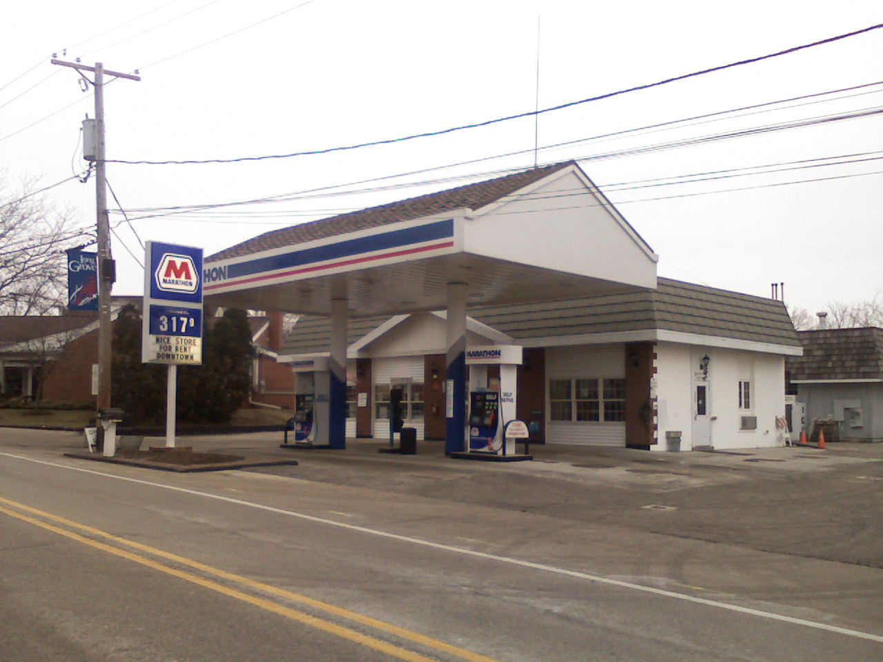 Mel's Marathon in Long Grove, IL